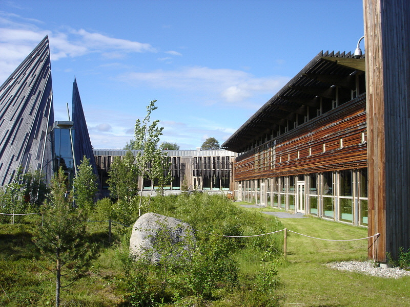 Sami Parlament - Norway, Karasjok